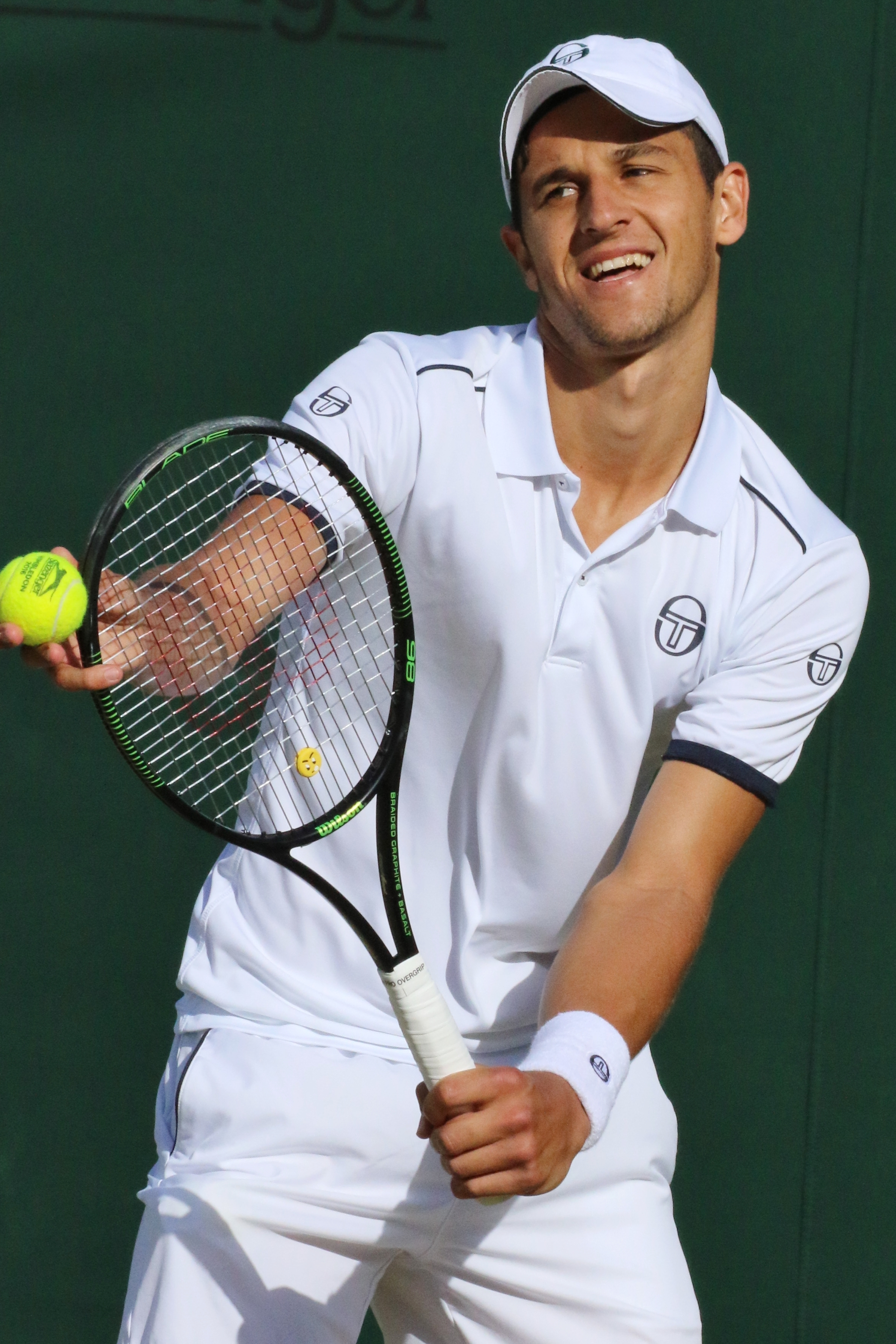 Pavic M. WM16 (21)